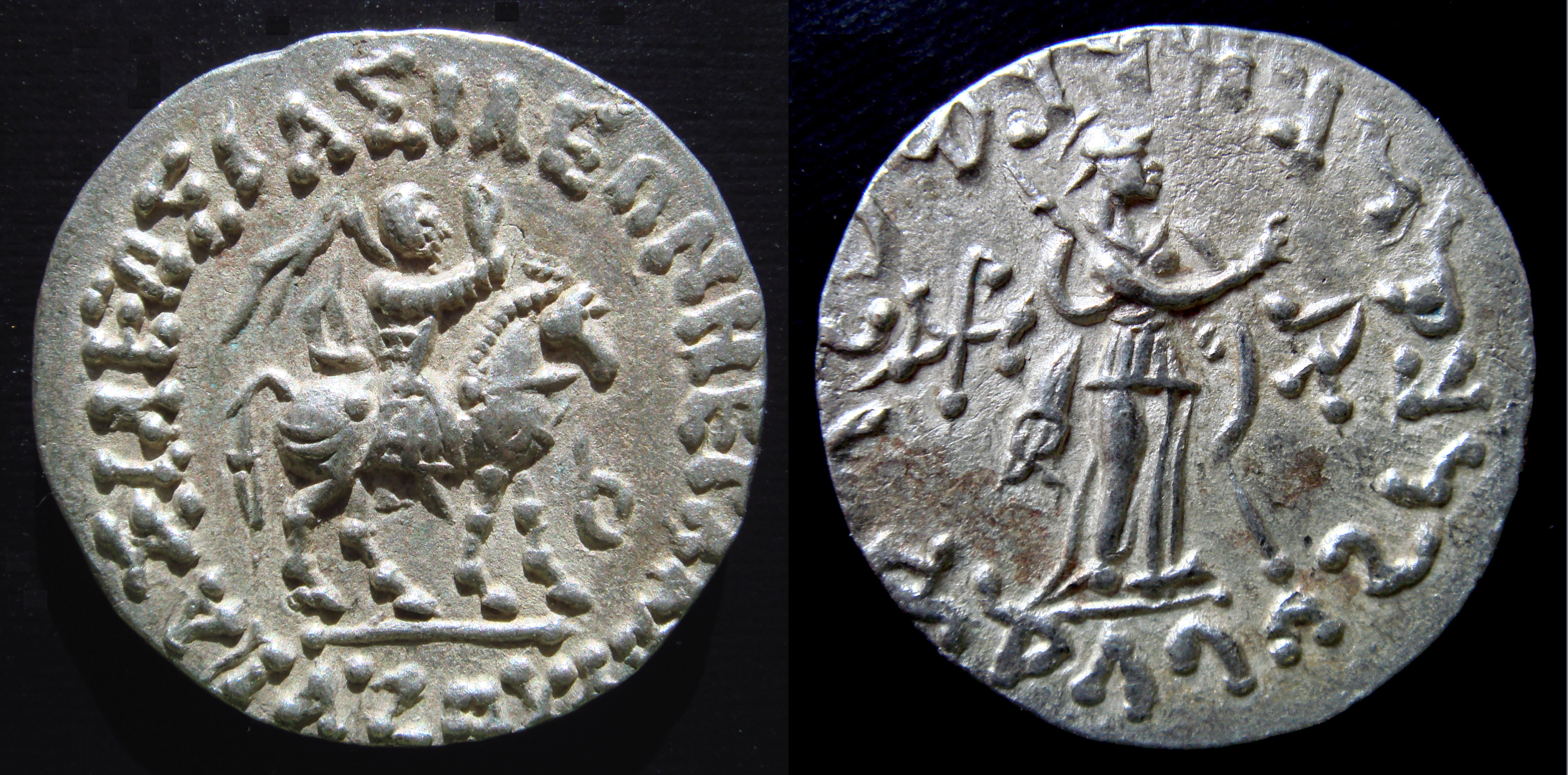 Coin of Azes II. Personal photograph 2007. Own coin.